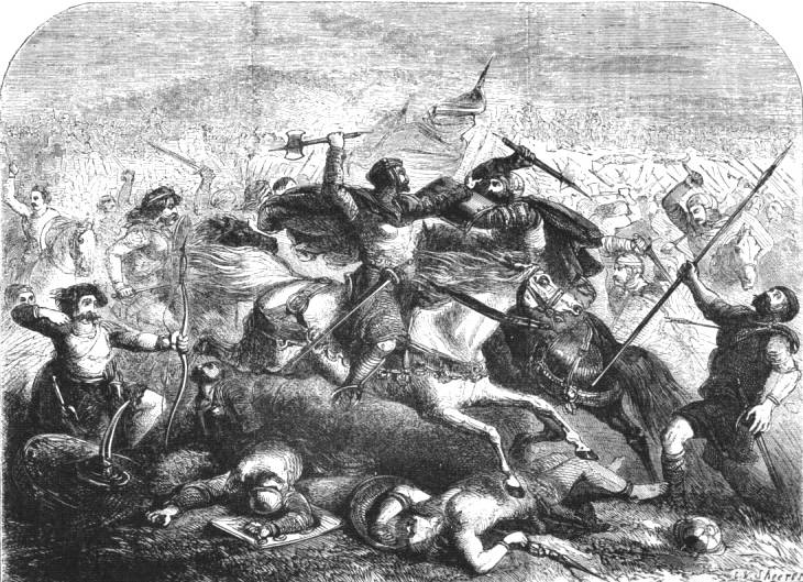 caption reads: Defeat of the Saxons by Arthur